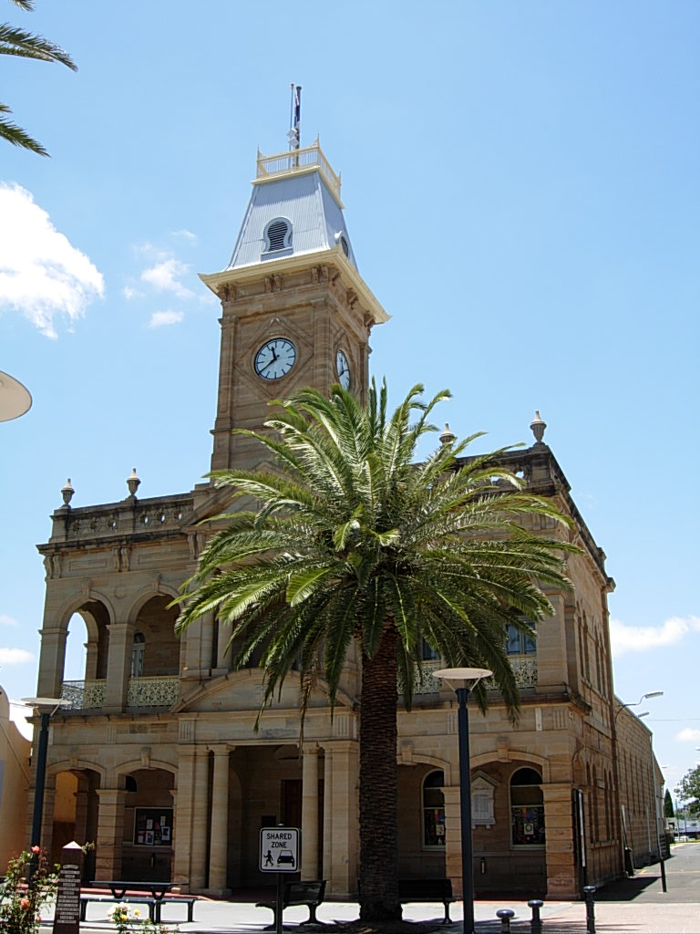 Warwick town hall, Queensland, Australia